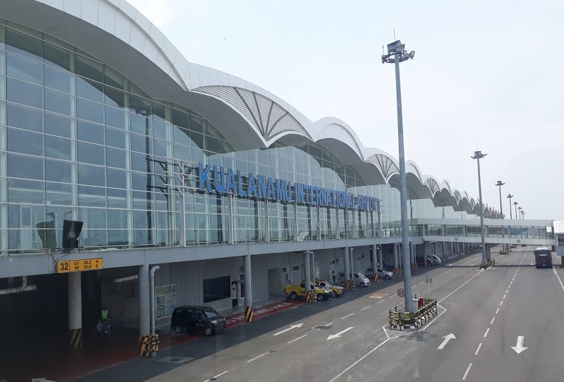 The termimal at Kuala Namu Airport, North Sumatra, Indonesia, which serves Medan